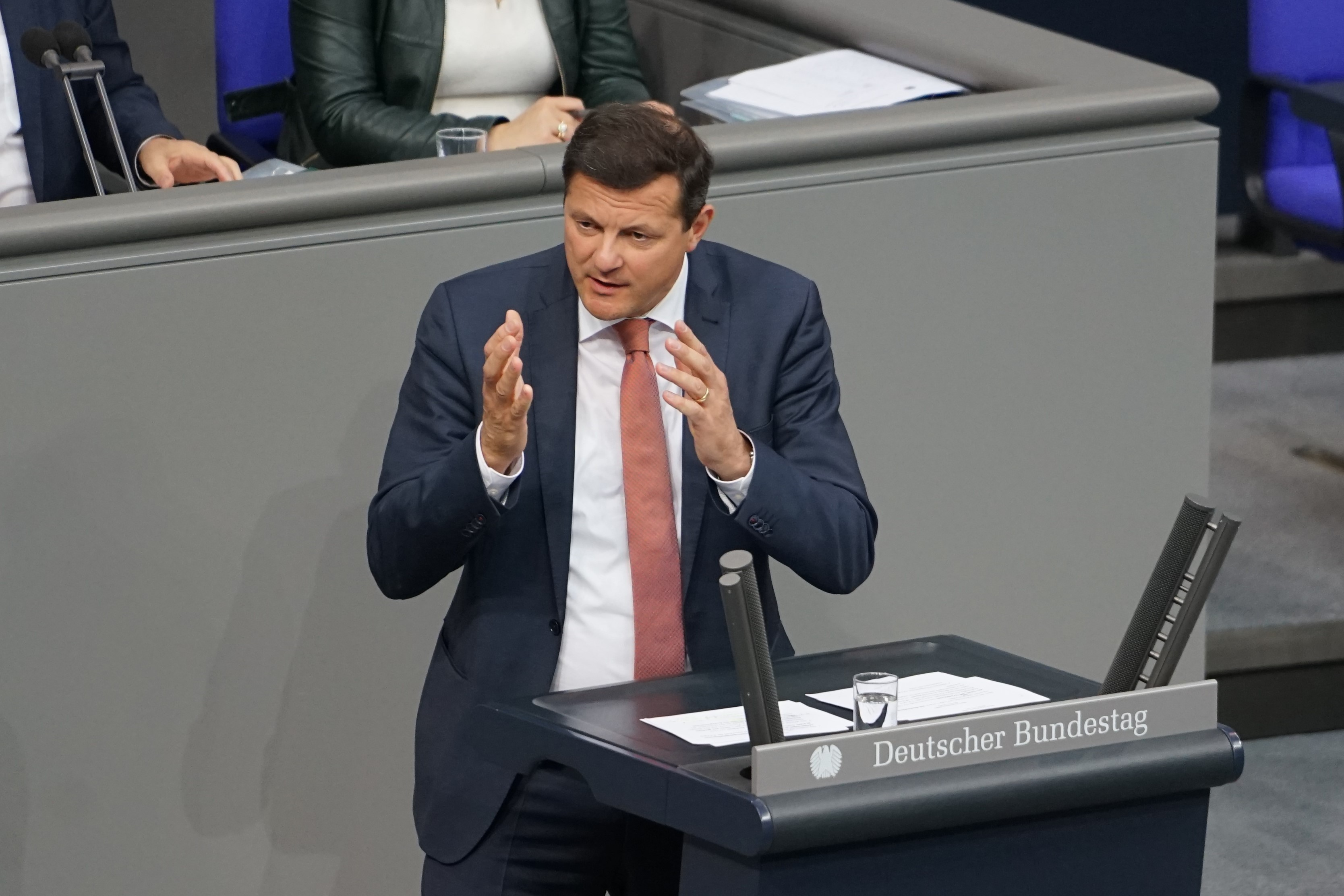 Oliver Grundmann in the plenary session of the German Bundestag (2019)